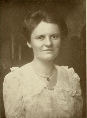 Hattie B. Gooding, Kajiwara Photo, Johnson, Anne (André) "Mrs. Charles P. Johnson", 1871-. Notable women of St. Louis, 1914; (Kindle Location 4402). [St. Louis, Woodward.]